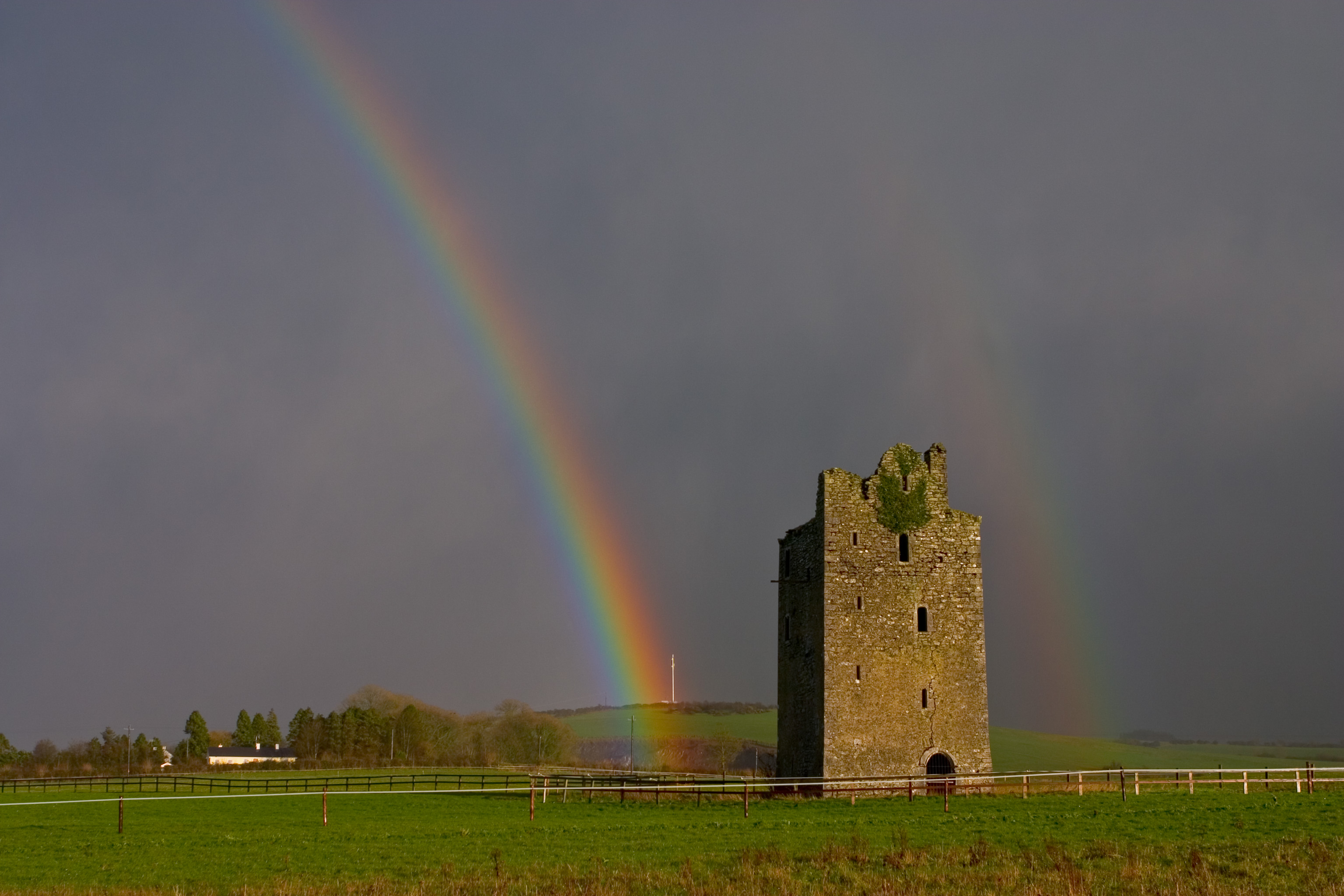 Double rainbow and castle near the Rock of Cashel, County Tipperary, Ireland.